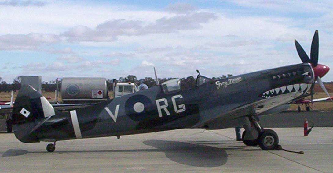 Australia's only flying Spitfire at Temora Aviation Museum, NSW.